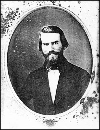 Portrait of John J. E. Mayall [c. 1845]. This portrait of John J. E. Mayall was made in Philadelphia, where Mayall established a daguerreotype portrait studio in the 1840s. His early career as a daguerreotypist in Philadelphia led to the mistaken belief that the Lancashire-born Mayall was an American.